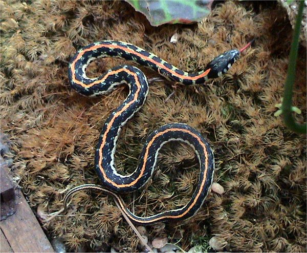 Blackneck Garter Snake. Photographer: Dawson.